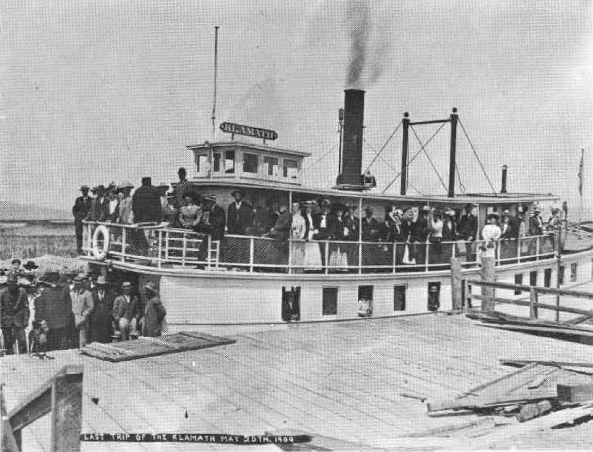 Last voyage of steamer Klamath on lower Klamath Lake, May 20, 1909